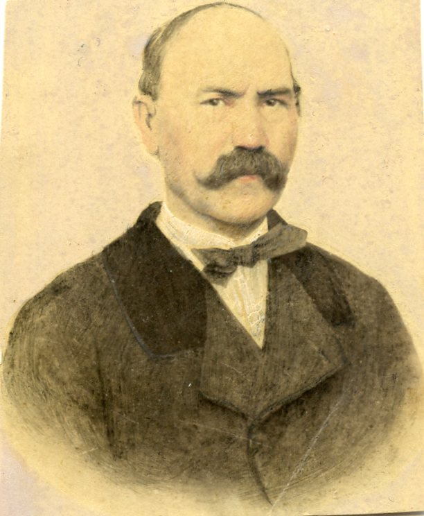 Cuadro de Francisco Freire Barreiro